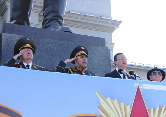 В Параде Победы в Самаре приняли участие около 2тыс. человек и 50 единиц военной техники